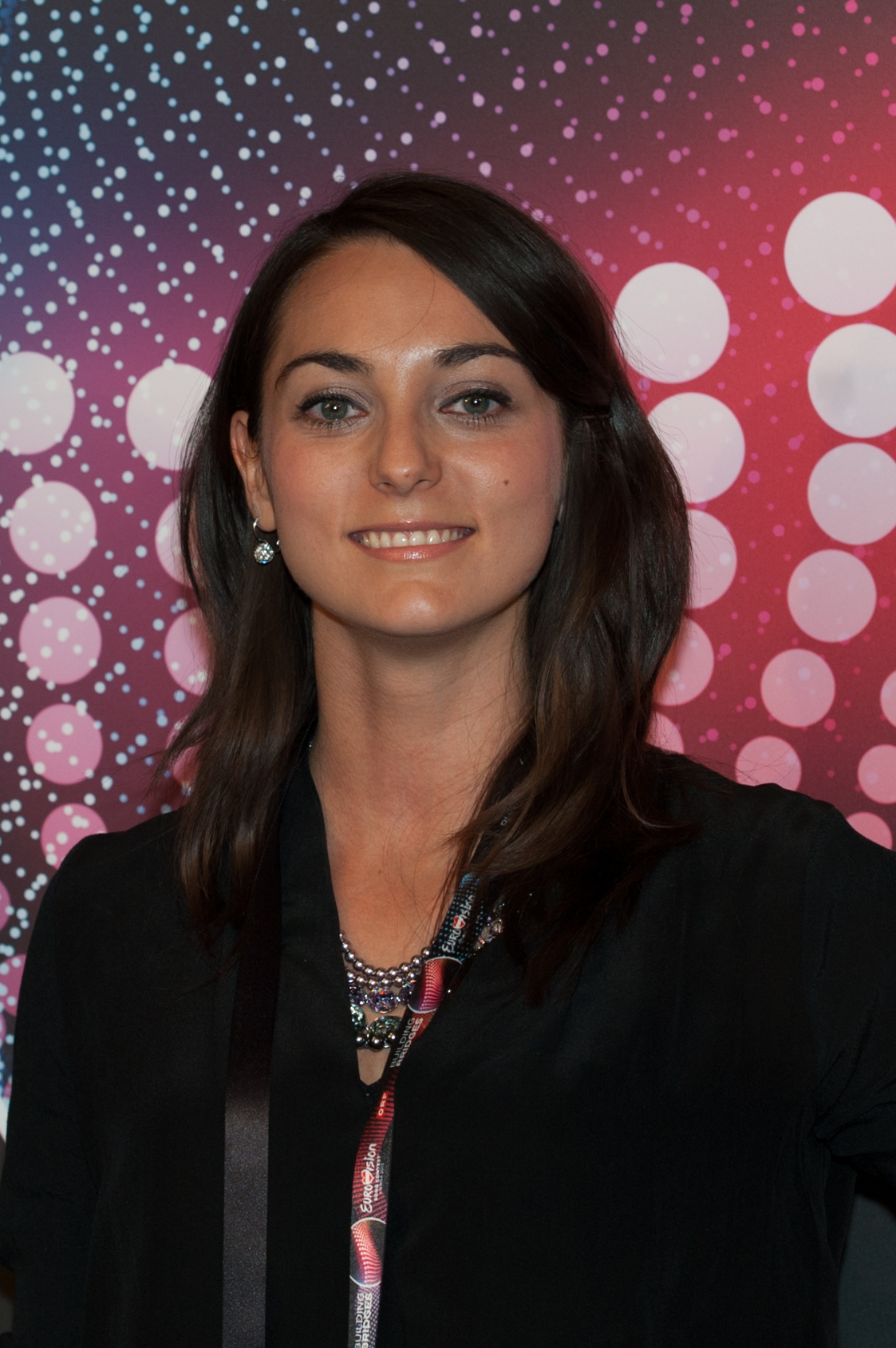 Eurovision Song Contest Vienna 2015: Boggie